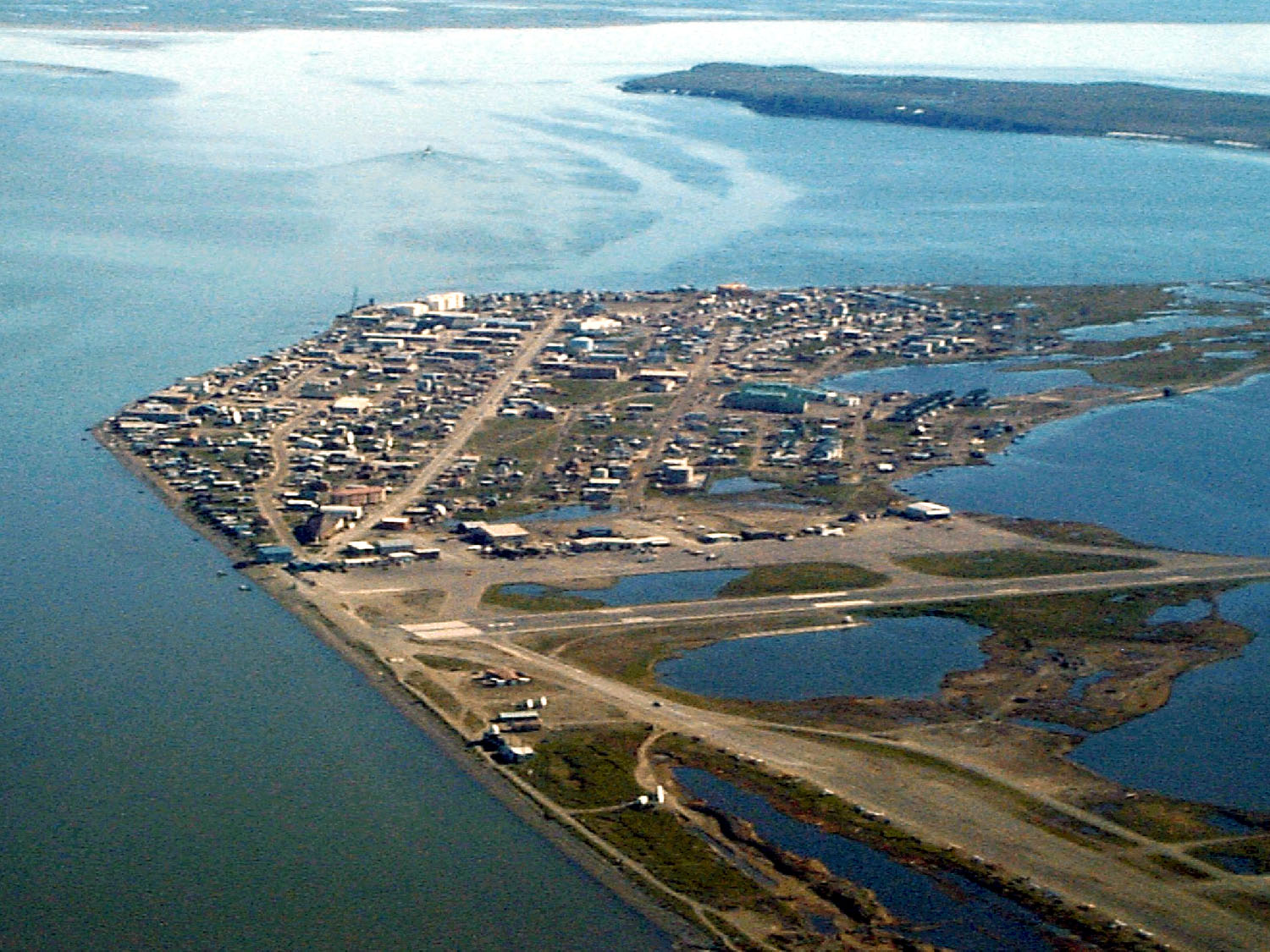 Aerial view of Kotzebue, Alaska, U.S.